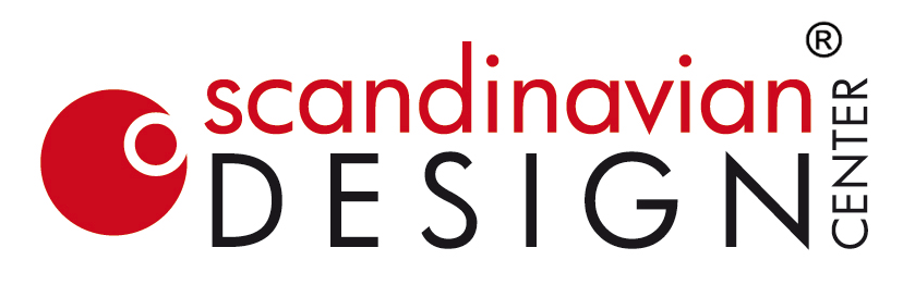 Scandinavian Design Center Logo